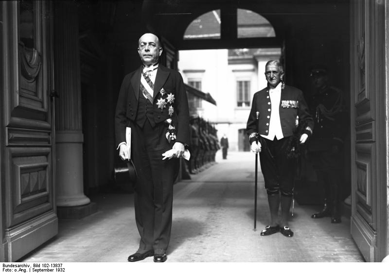 Newly named Czechoslovakian ambassador to Berlin Dr. Vojtěch Mastný leaves the presidential palace after having presented his letters of credence.